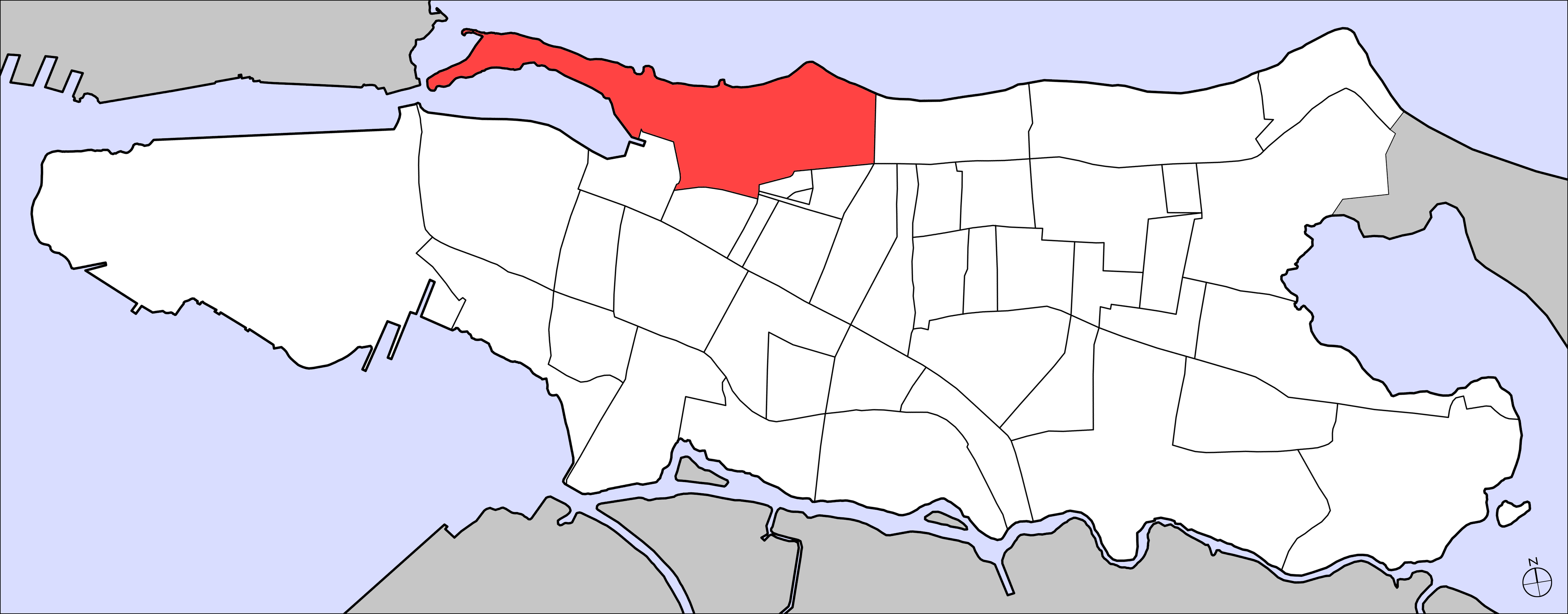 Map of Condado (San Juan, Puerto Rico)